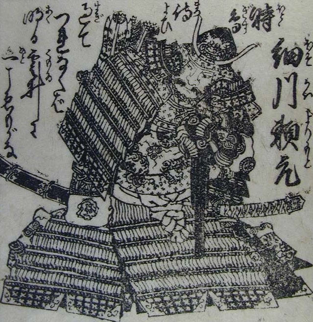 hosokawa_yorimoto